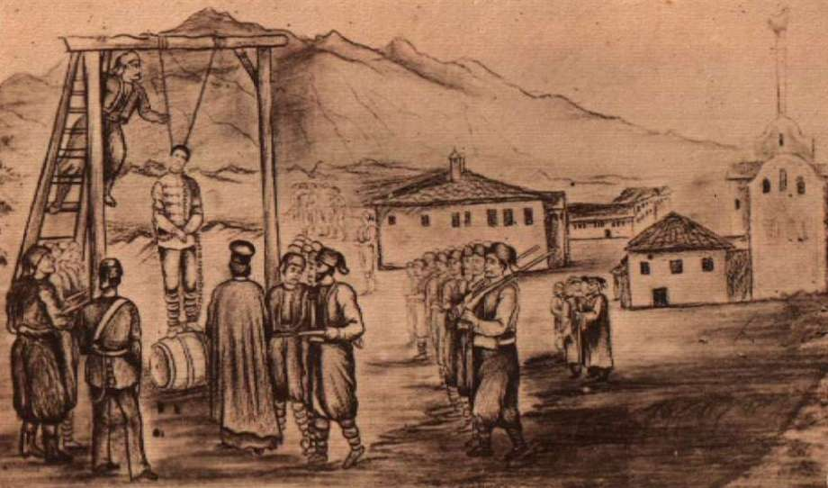 Vasil Levski (1837-1873)